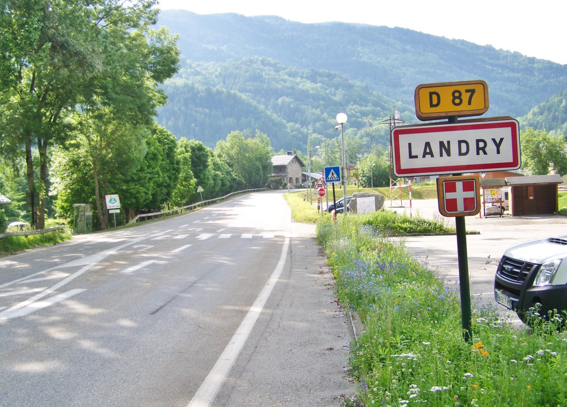 Welcoming sign to the French commune of Landry near Bourg-Saint-Maurice, in the Tarentaise valley, Savoie, France.